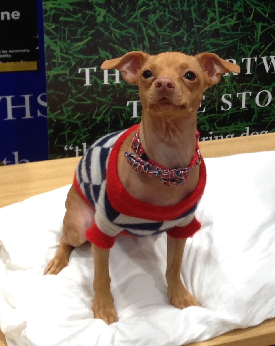 Tuna, a Chihuahua/Daschund Cross and Internet Celebrity dog.